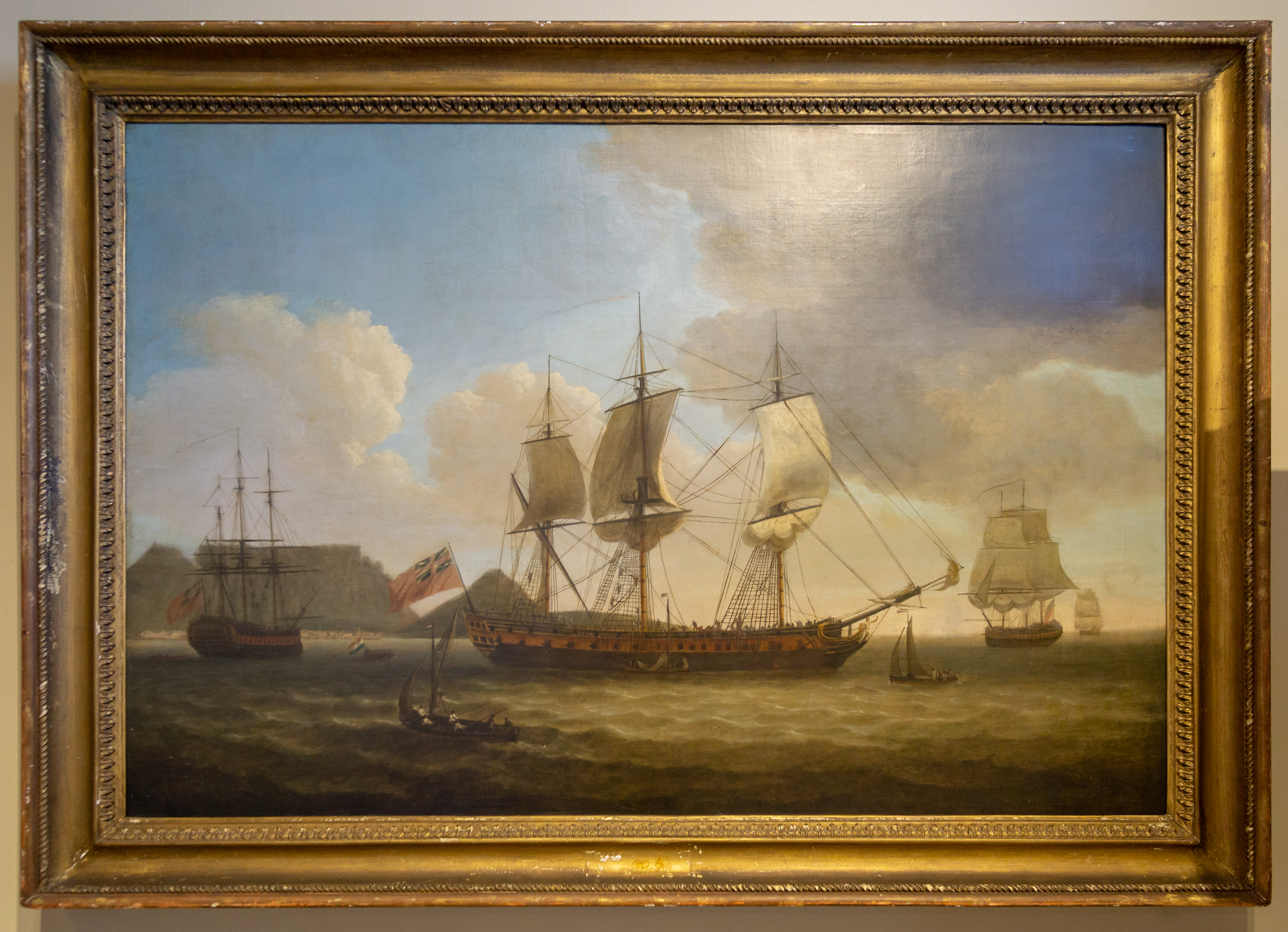 English ships in Table Bay